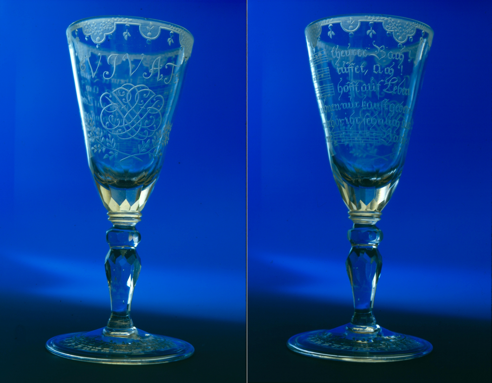 The Bach-Cup in the Bach House in Eisenach (front and back).